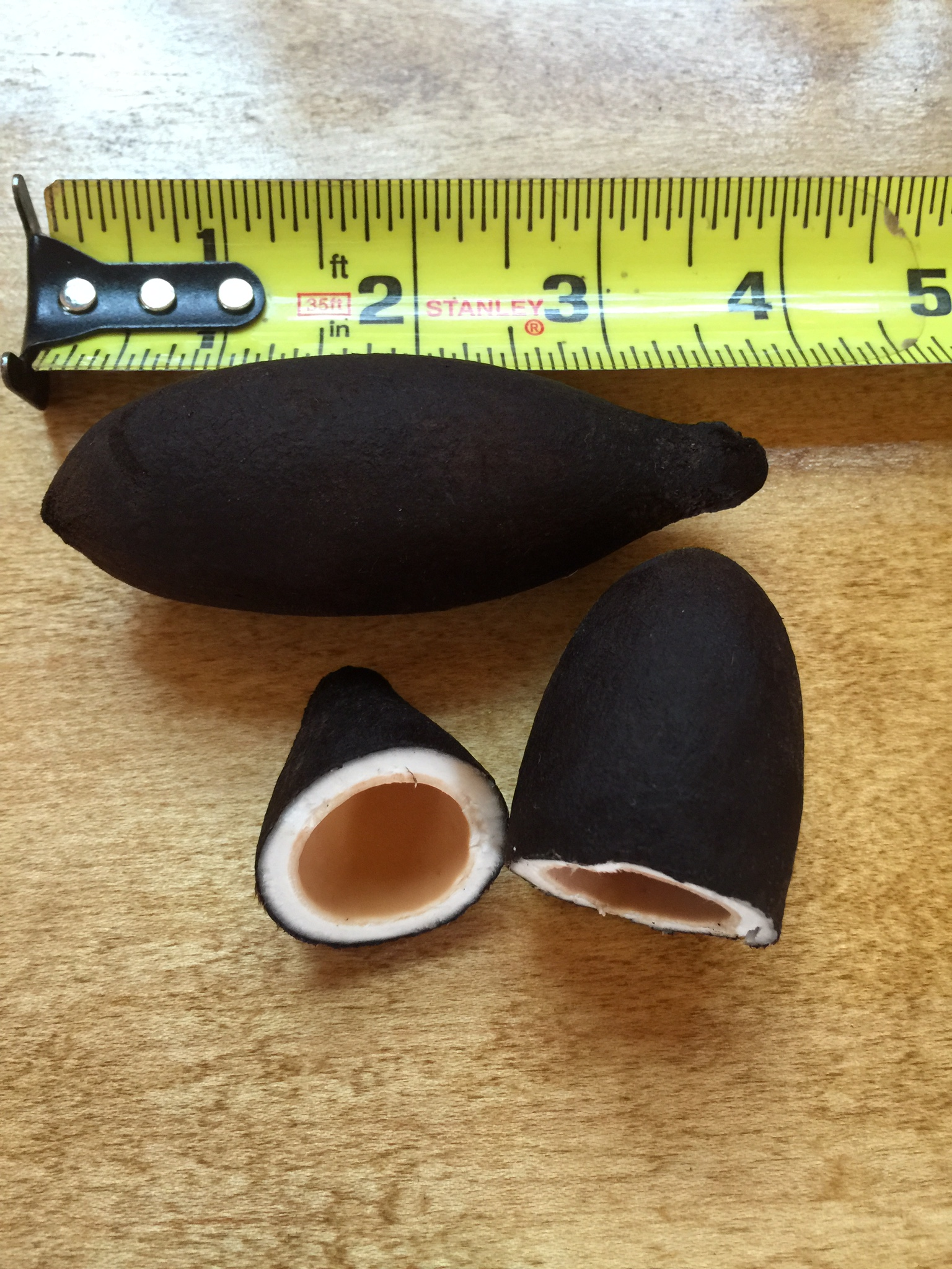 An intact immature fruiting body of Chorioactis geaster measuring 3.75in (9.5cm) in length, and a second immature fruiting body cut open to reveal the spore-bearing surface (hymenium).